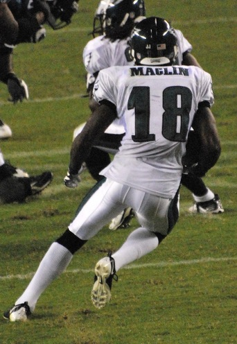 Maclin